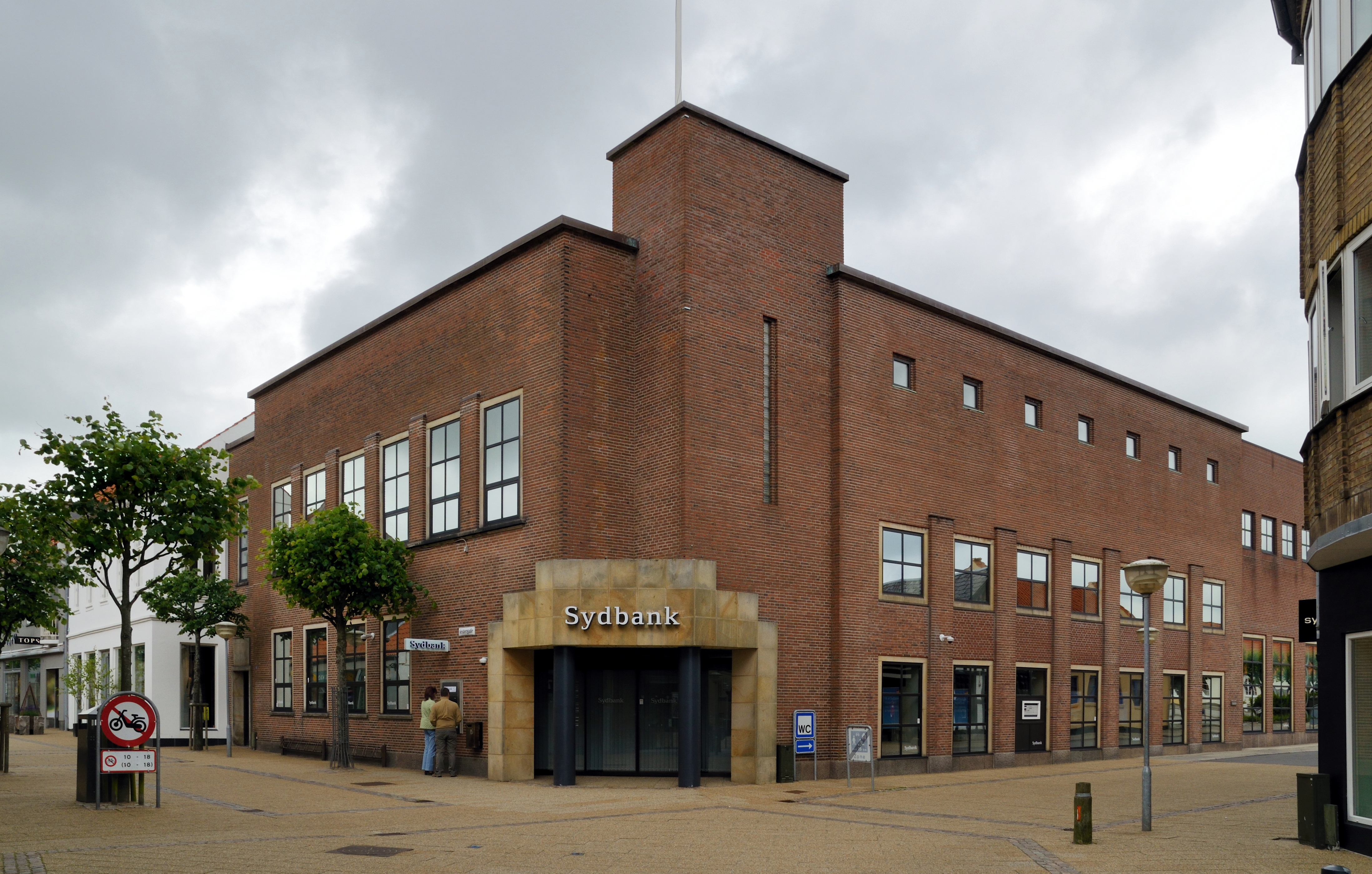 Varde: Sydbank